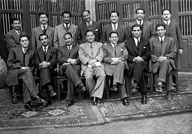 Teachers of the "Shamash" high school before coming to Israel, Baghdad c.1950